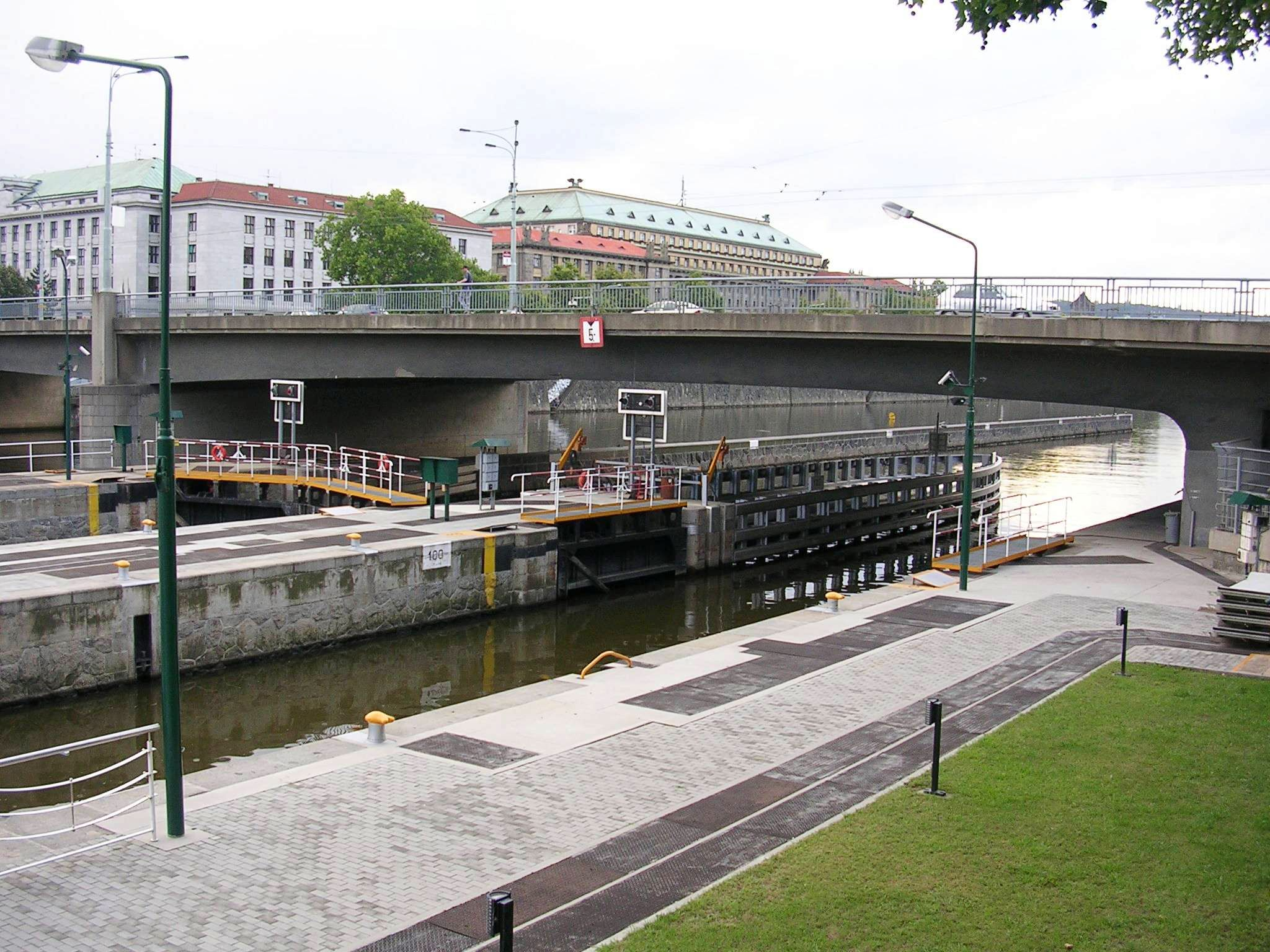 Prague, the Czech Republic. Štvanice Sluice.